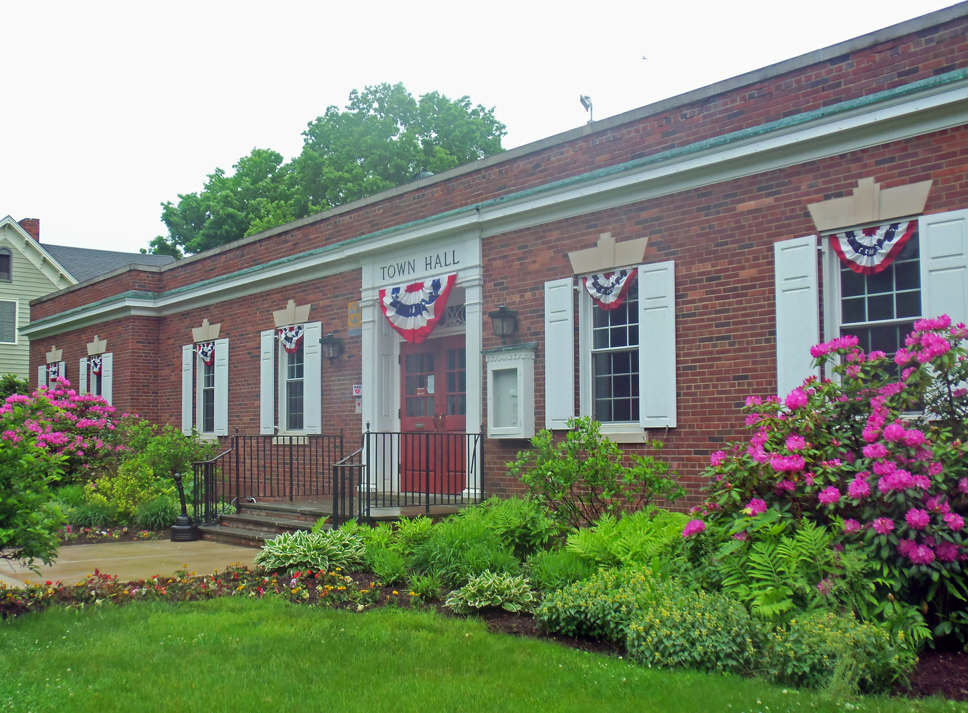 Town hall building, Rhinebeck, NY, USA